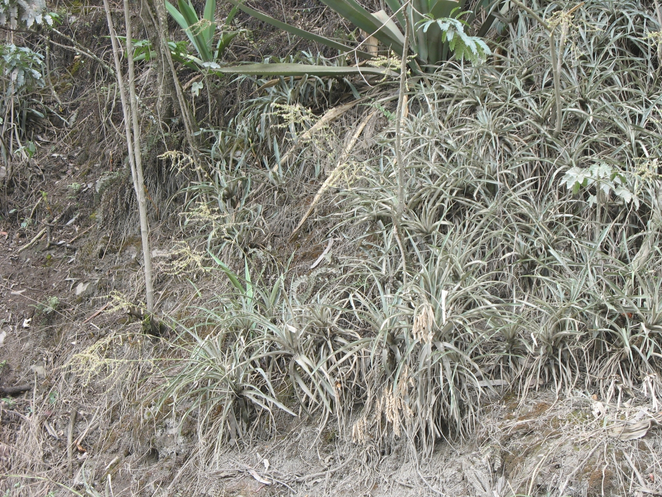 Fosterella weddelliana in habitat in Bolivia, exact location unknown.